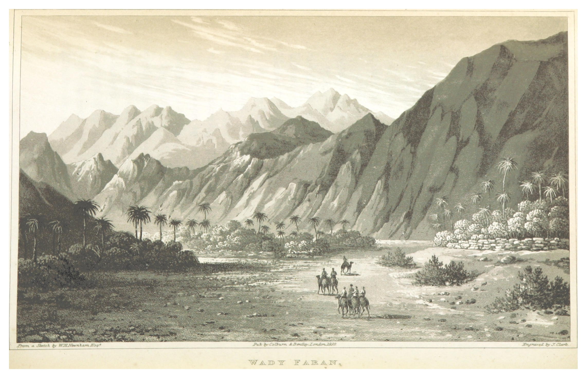 Feiran Oasis is the largest Oasis in Sinai, stretching for more than 5 km. It is probably the Wadi Feiran that made this place so famous, Sinai's largest wadi and probably - from the archeological point of view - most important one. According to the legend it was this here where Moses converted a rock into a spring so his people could drink. Walking through this wadi is a journey through history (Old Testament - Exodus 17) for many pilgrims and also for some interested tourists. In the 4th century AD Feiran was about to develop into a major religious center and still today there are ruins of lots of ancient churches to be seen.